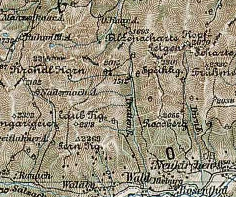 3rd Military Mapping Survey of Austria-Hungary - Bruneck; detail: Tratten B(ach)